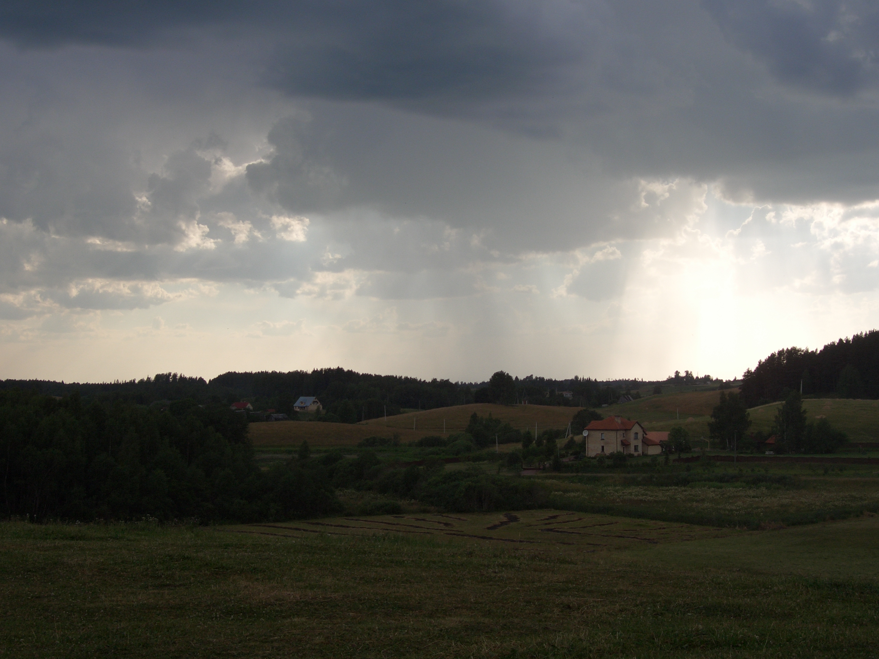 It's gonna rain in Biksinīki. Latgaļu: Biksinīkūs byus leits.